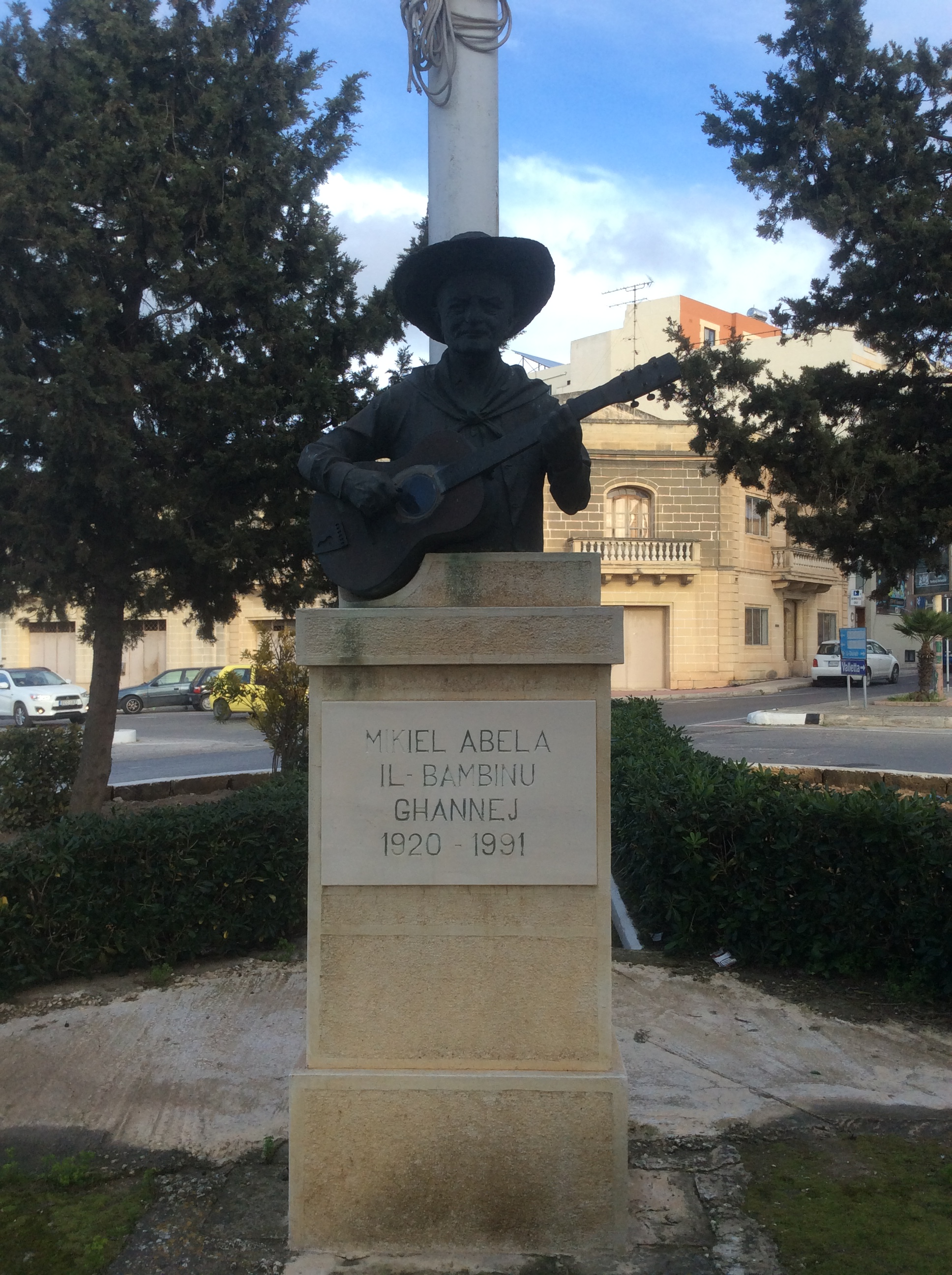 Ghana Zejrun Monument